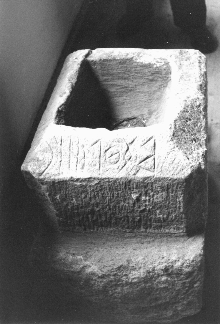 Old stone, found in the Hungarian church of Vârghiş (probably its a baptismal font). The inscription is written with old Hungarian letters: "Woman, behold thy son!" John 19,26. (Earlier solution: Michael, the God's saint).